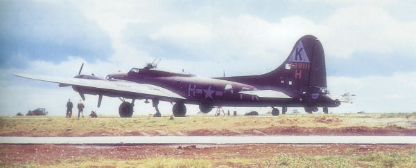 B-17G of the 379th Bomb Group, RAF Kimbolton, England.